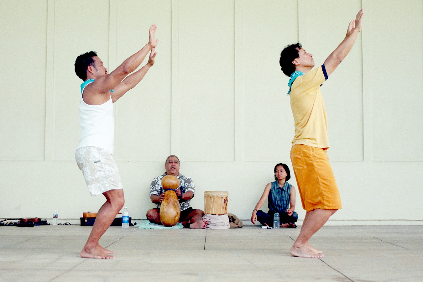 Kumu Kula Abiva practices Hula, he's playing Ipu Heke while his dancers dance the hula in Imin Center, Manoa, Hawaii.